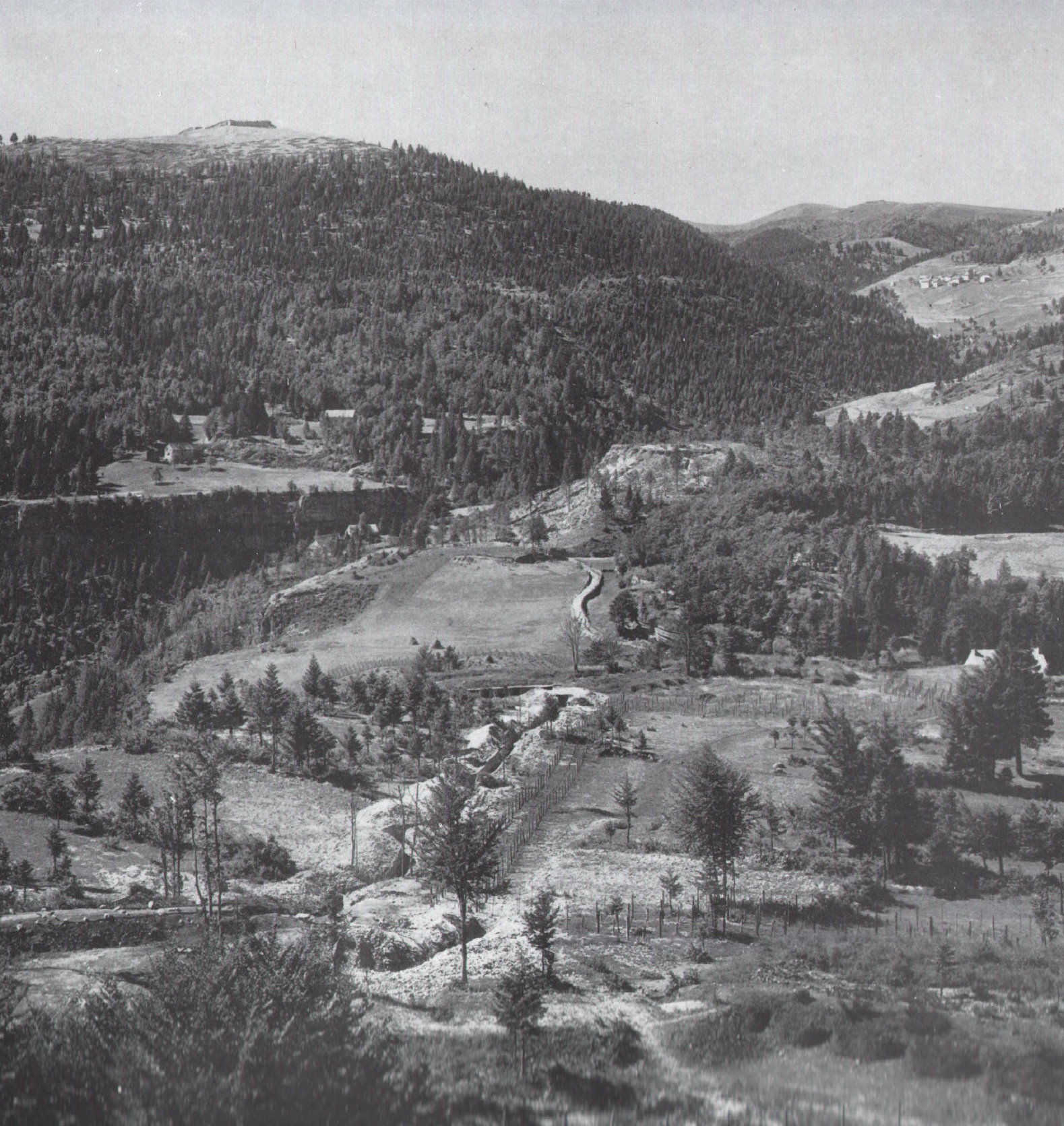 Fort Sebastiano/Cherle